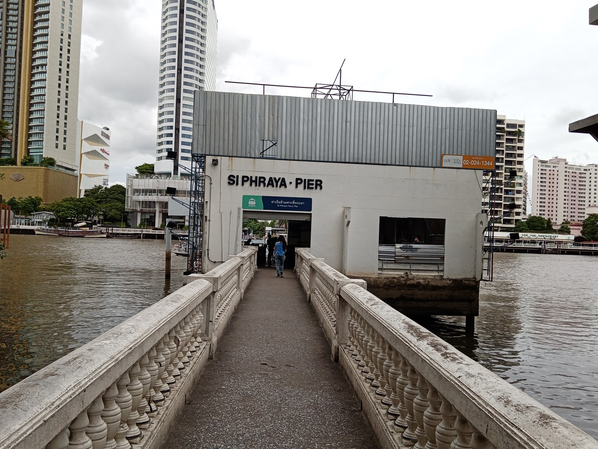 Si Phraya Pier (ferry pier)